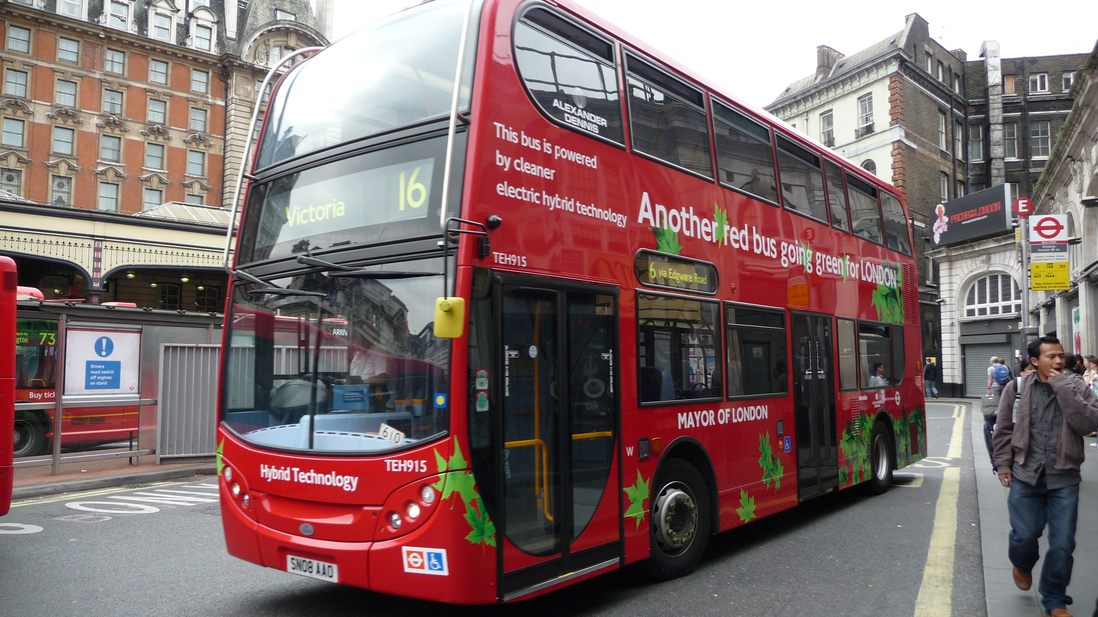 Metroline TEH915 (SN08 AAO), an Alexander Dennis Enviro400H, in Terminus Place, at Victoria bus station in front of London Victoria railway station, Westminster, London, on route 16. This is a hybrid vehicle, as shown by the special green leaf vinyls.